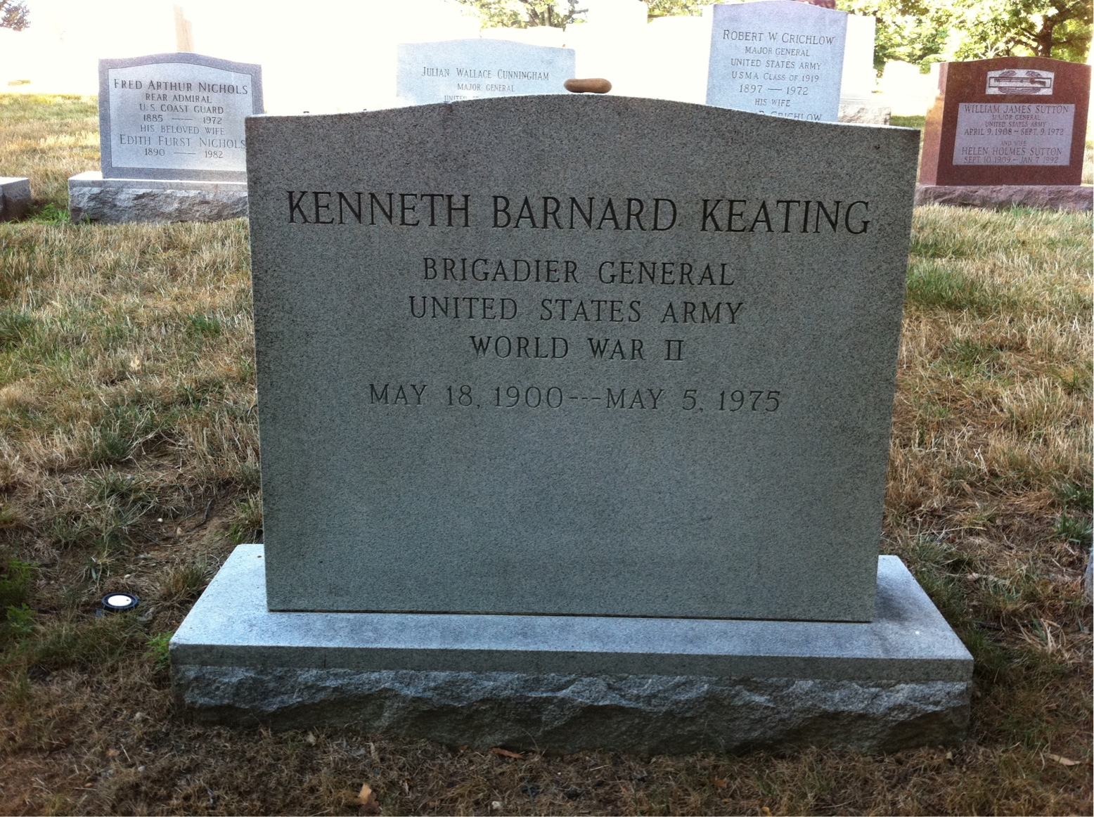 Grave of Kenneth Keating at Arlington National Cemetery